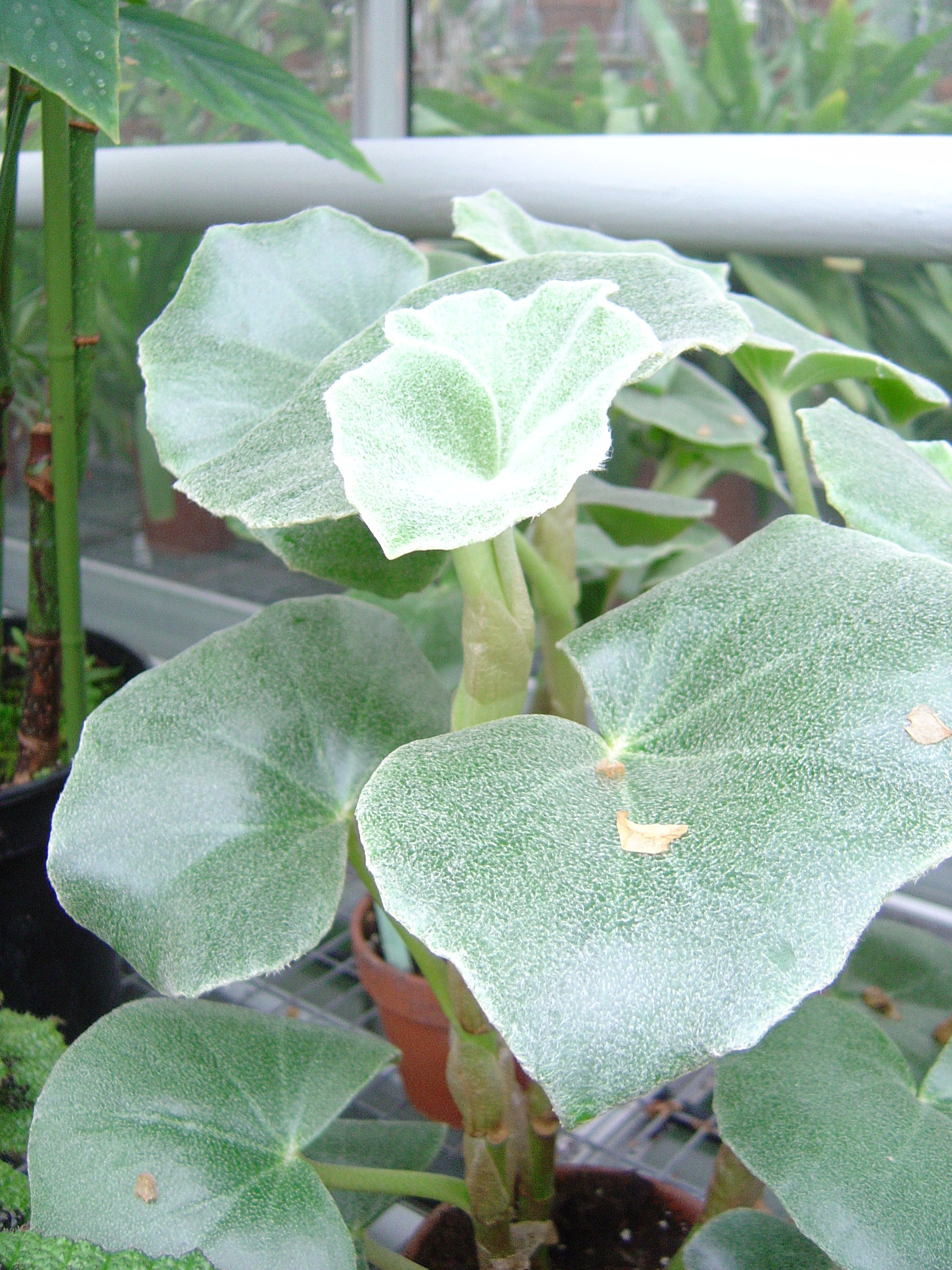 Photo catch by myself : Solène MOUTARDIER